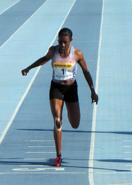 Jamaican sprinter Sheri-Ann Brooks running at Lappeenranta Games (Finland) 2010.